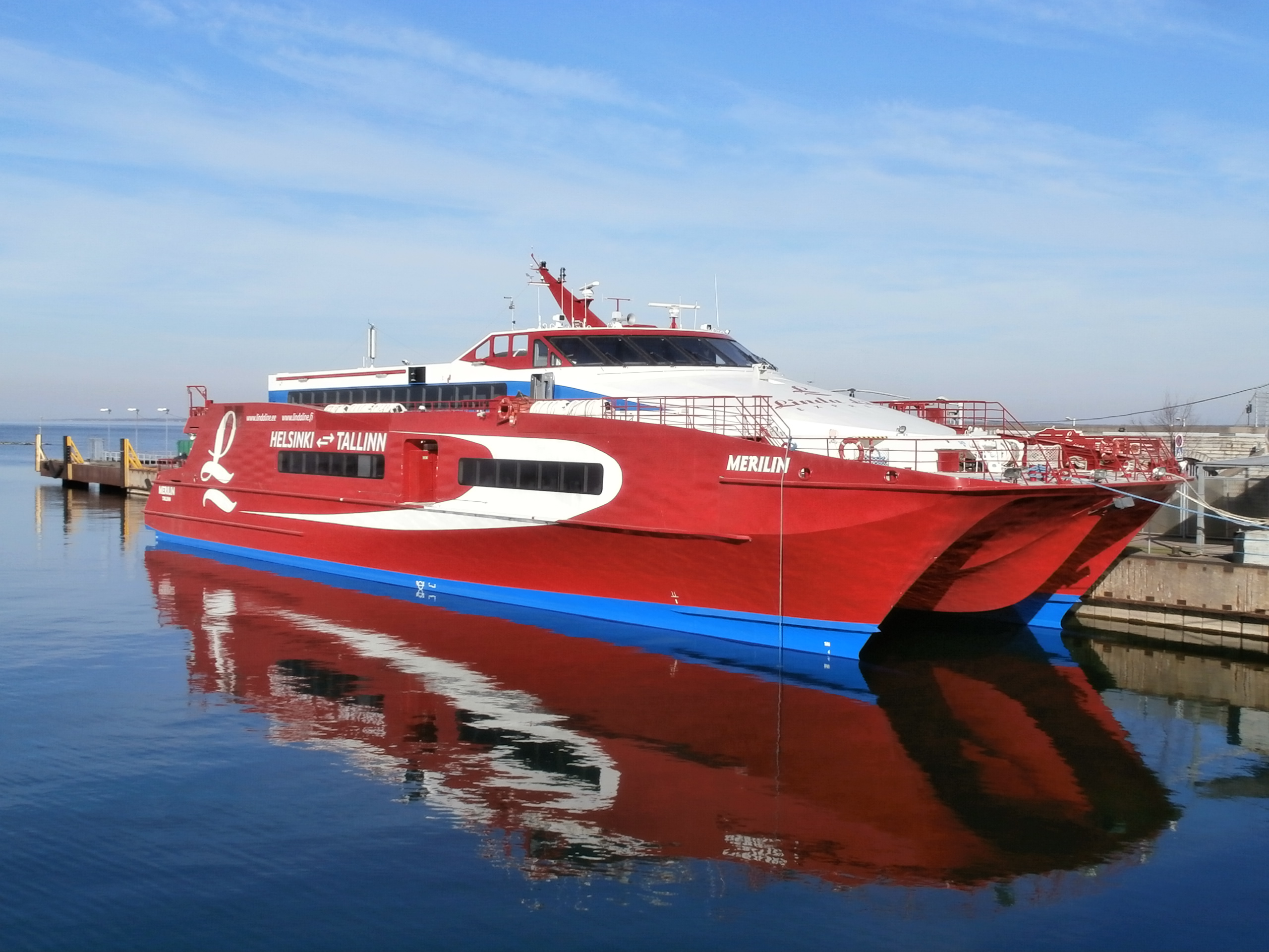 Merilin at quay 1 at Linnahall in Patareisadam, Tallinn 18 March 2015